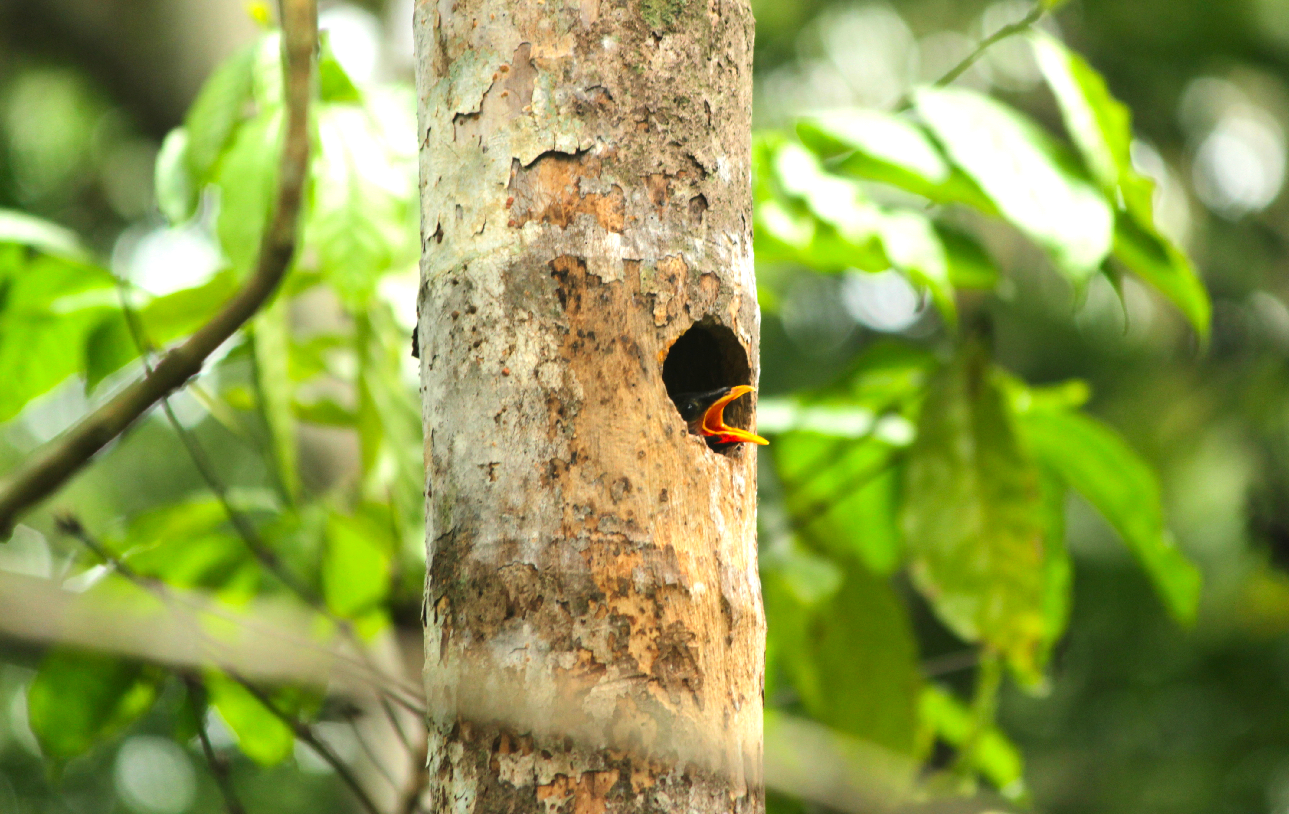 A baby Common Myna {Acridotheres tristis) in an Areca palm (Areca catechu) nest.